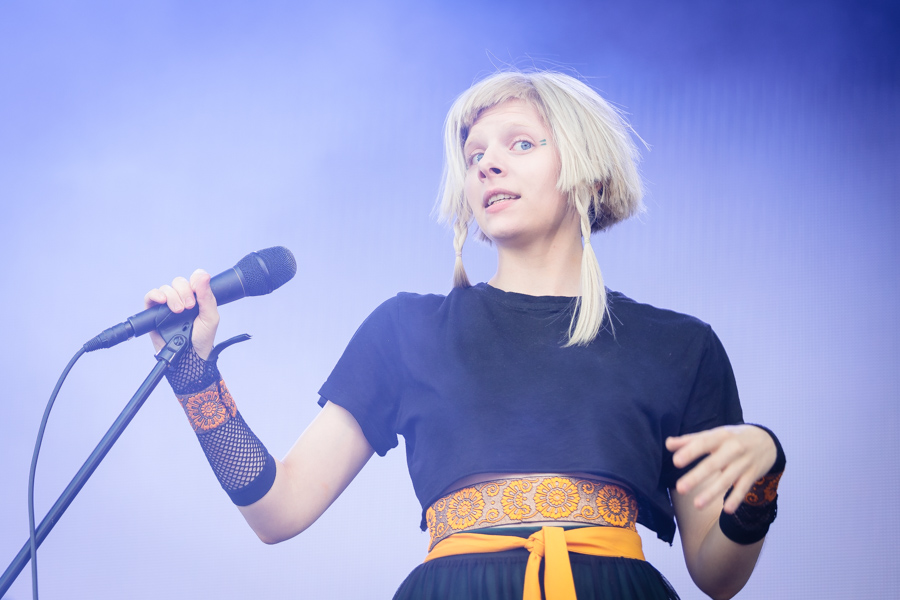 Aurora at Stavernfestivalen. The concert took place on 12. July 2018 in Stavern. Lineup:Aurora (vocal)Silja Dyngeland (keyboard)Fredrik Øgreid Vogsborg (guitar)Magnus Skylstad (drums)Unidentified (keyboard)